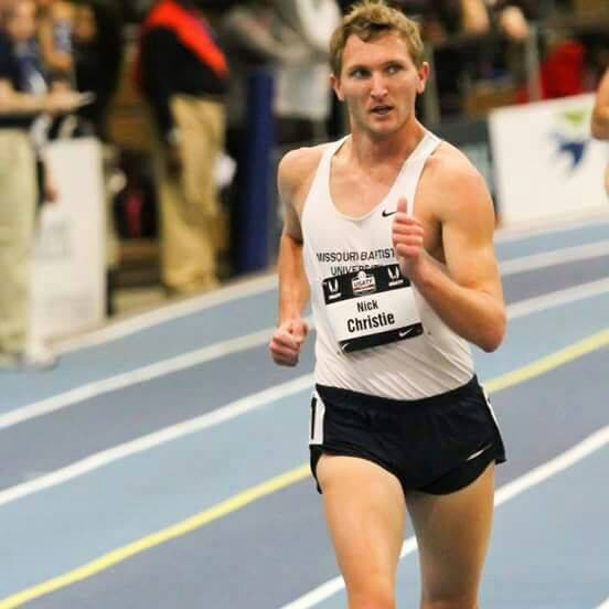 Christie in the 2015 USATF Indoor Championships 3000m Racewalk